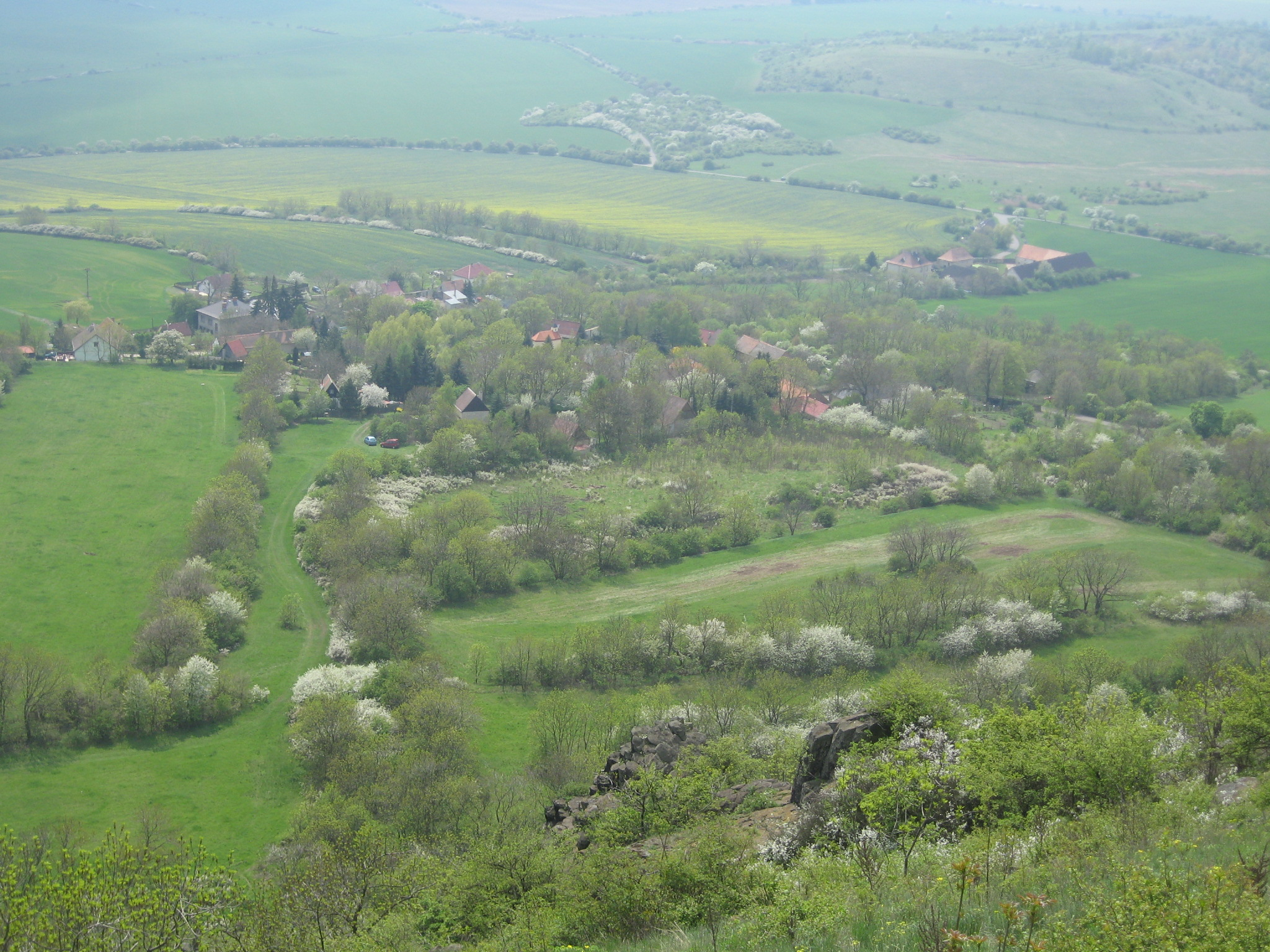 Milá Village (Czech Republic) from the Hill Milá